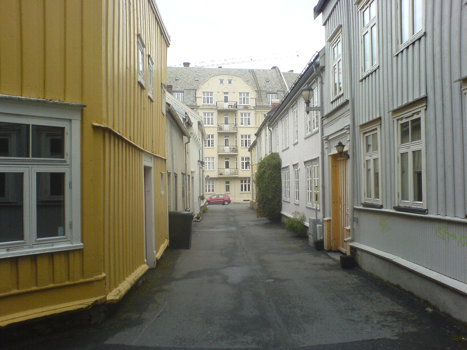 Brandhaugveita alley in Trondheim, Norway.